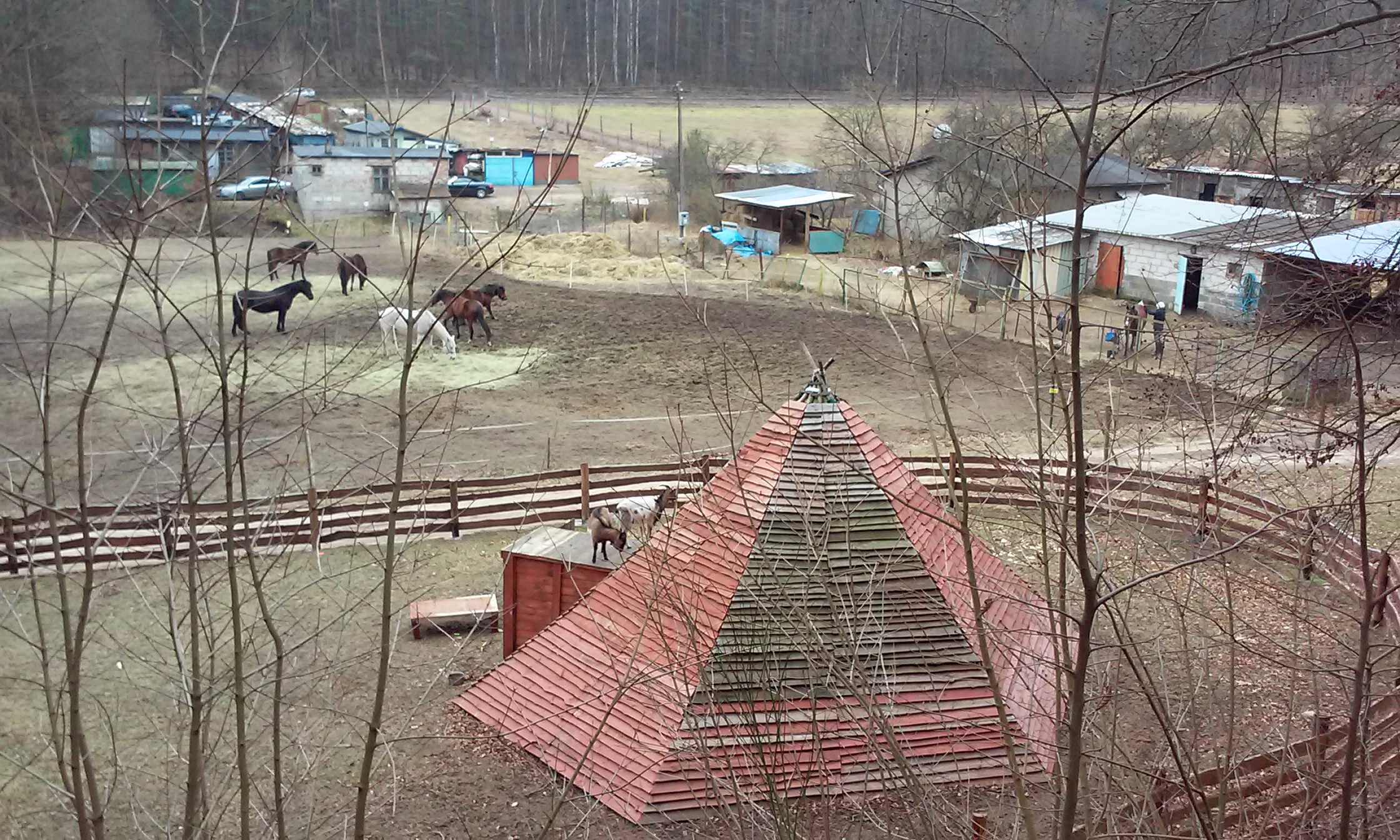 Gdynia Marszewo, Poland